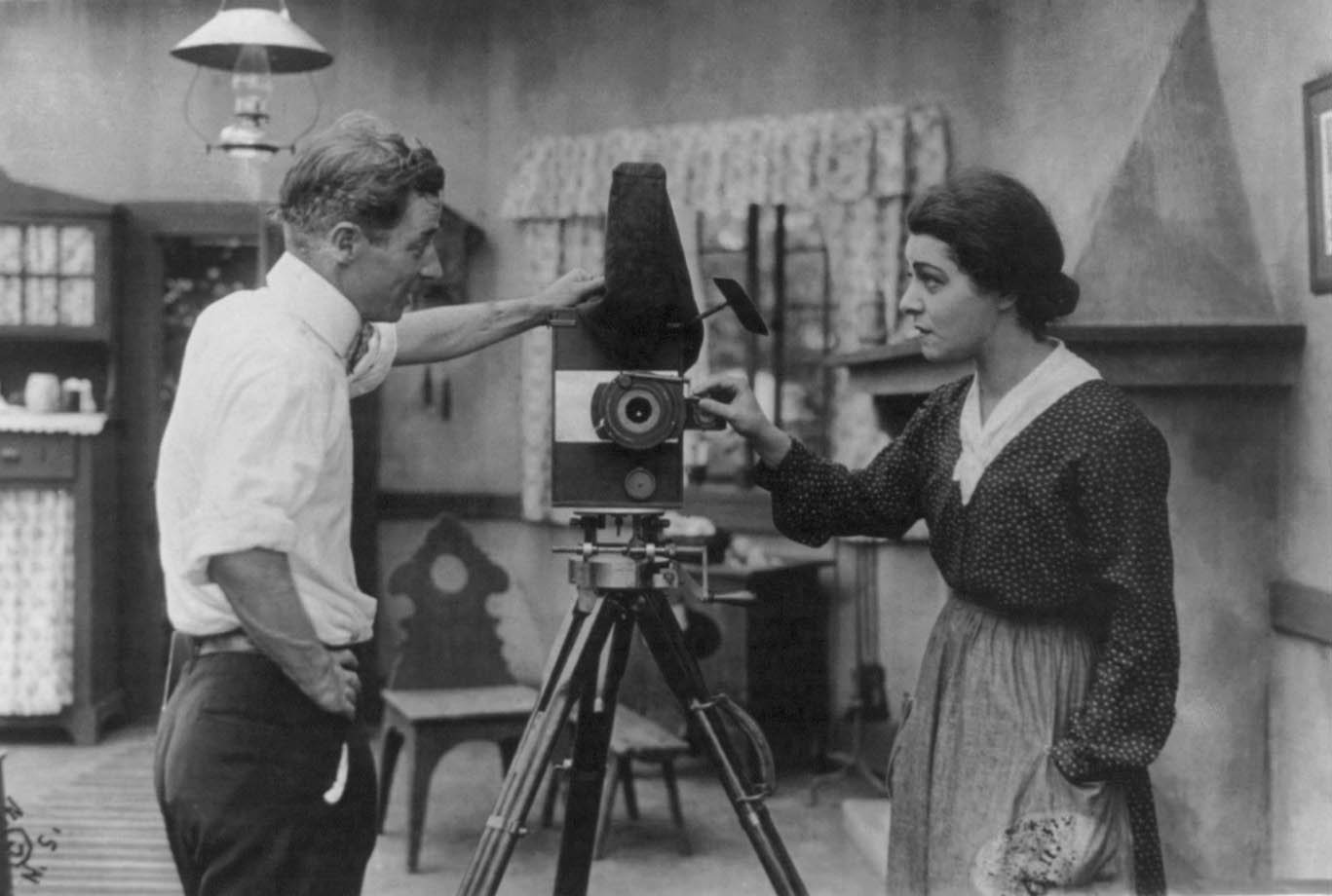 Director Herbert Brenon with actress Alla Nazimova. This is presumably on the set of War Brides (1916), which is the only film in which the two worked together according to IMDB.